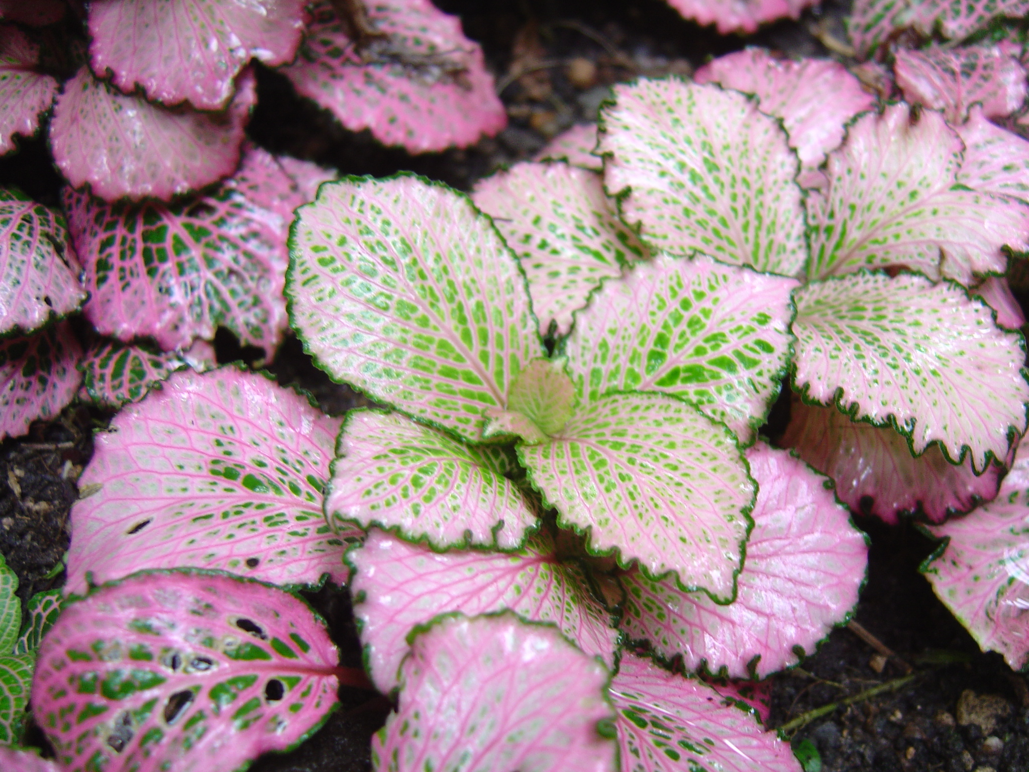 Photograph of Fittonia albivenis 'Argyroneura minima' (labeled as Fittonia verschaffeltii) growing in a greenhouse in the botanical garden in Münster, Germany